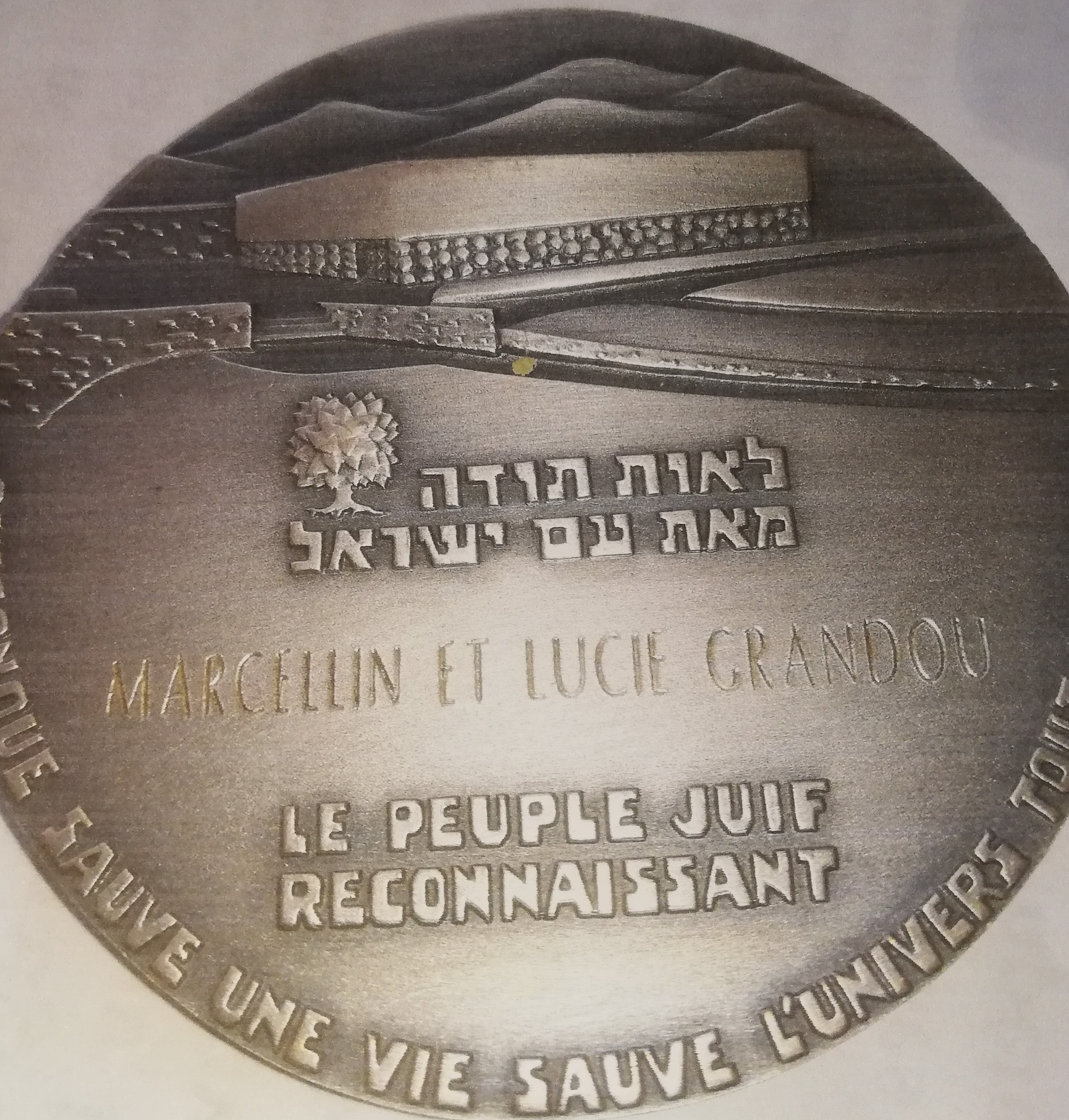 Reverse of the Medal of Just among the Nations of Marcelin and Lucie Grandou (Mayrac, Lot, France)